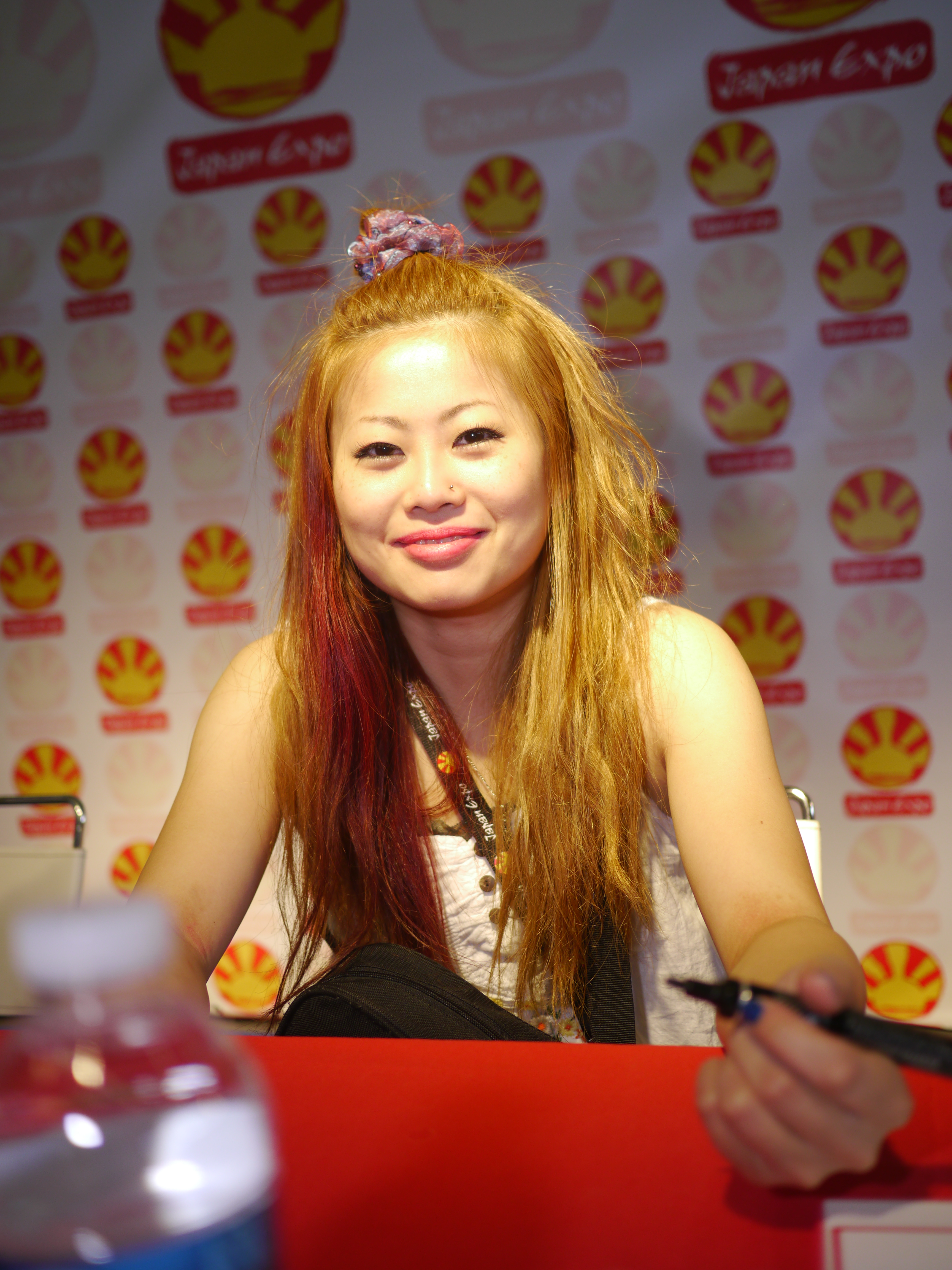 Japan Expo Festival, 12th impact